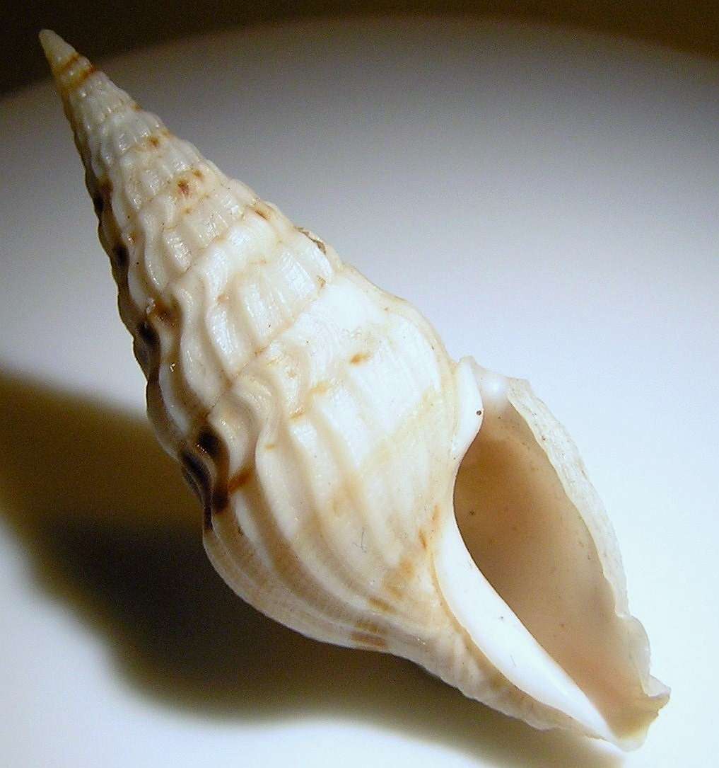 Drillia poecila Sysoev & Bouchet, 2001 ; the Philippines